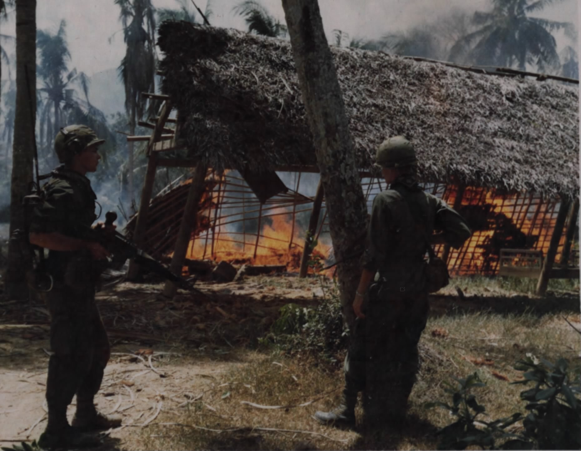 OPERATION PERSHING A radio telephone operator and a rifleman, both of "B" Troop, 1st Squadron, 9th Cavalry, 1st Cavalry Division, (Airmobile), stand on the trail watching while a VC hut burns down.